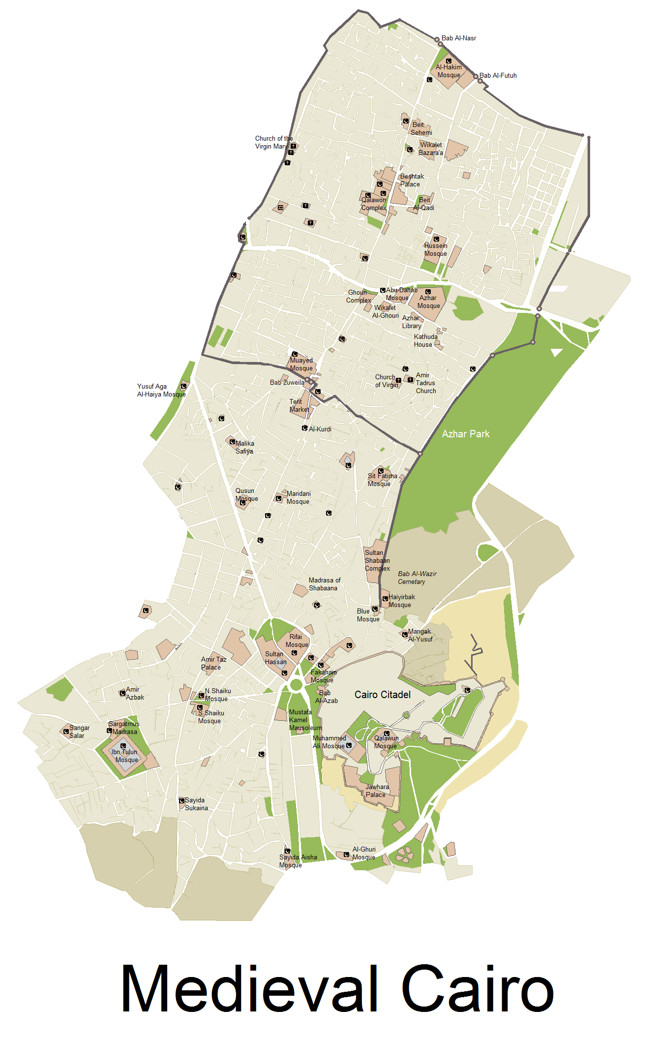 A Map showing the size of Medieval Cairo, with remaining Monuments today, map Includes Cairo from its establishing, till the late 17th century - NOTE: Bab Al-Futuh and Bab Al-Nasr are wrongly switched. See revised version here